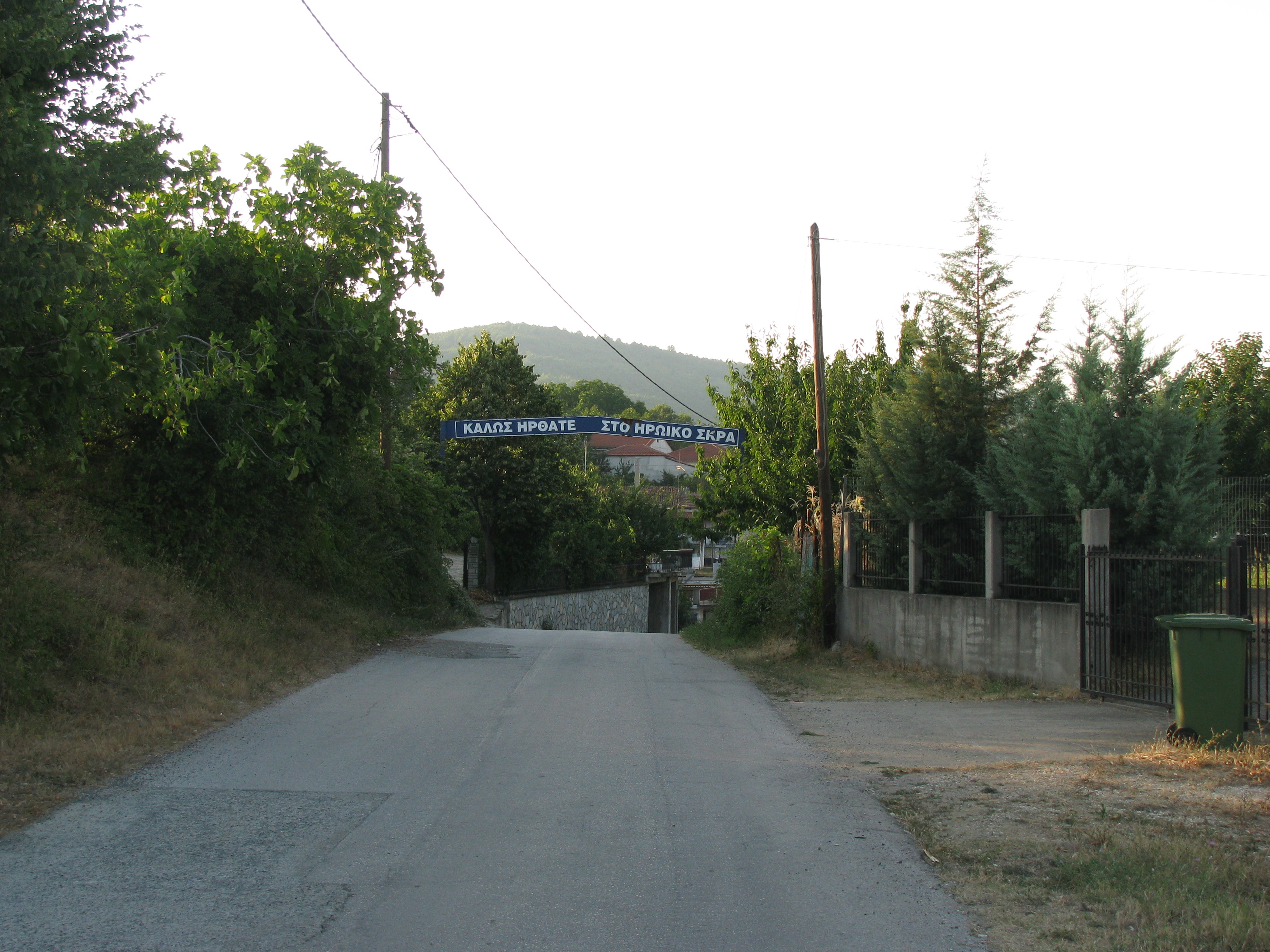 Village of Lyumnitsa or Skra, Greece